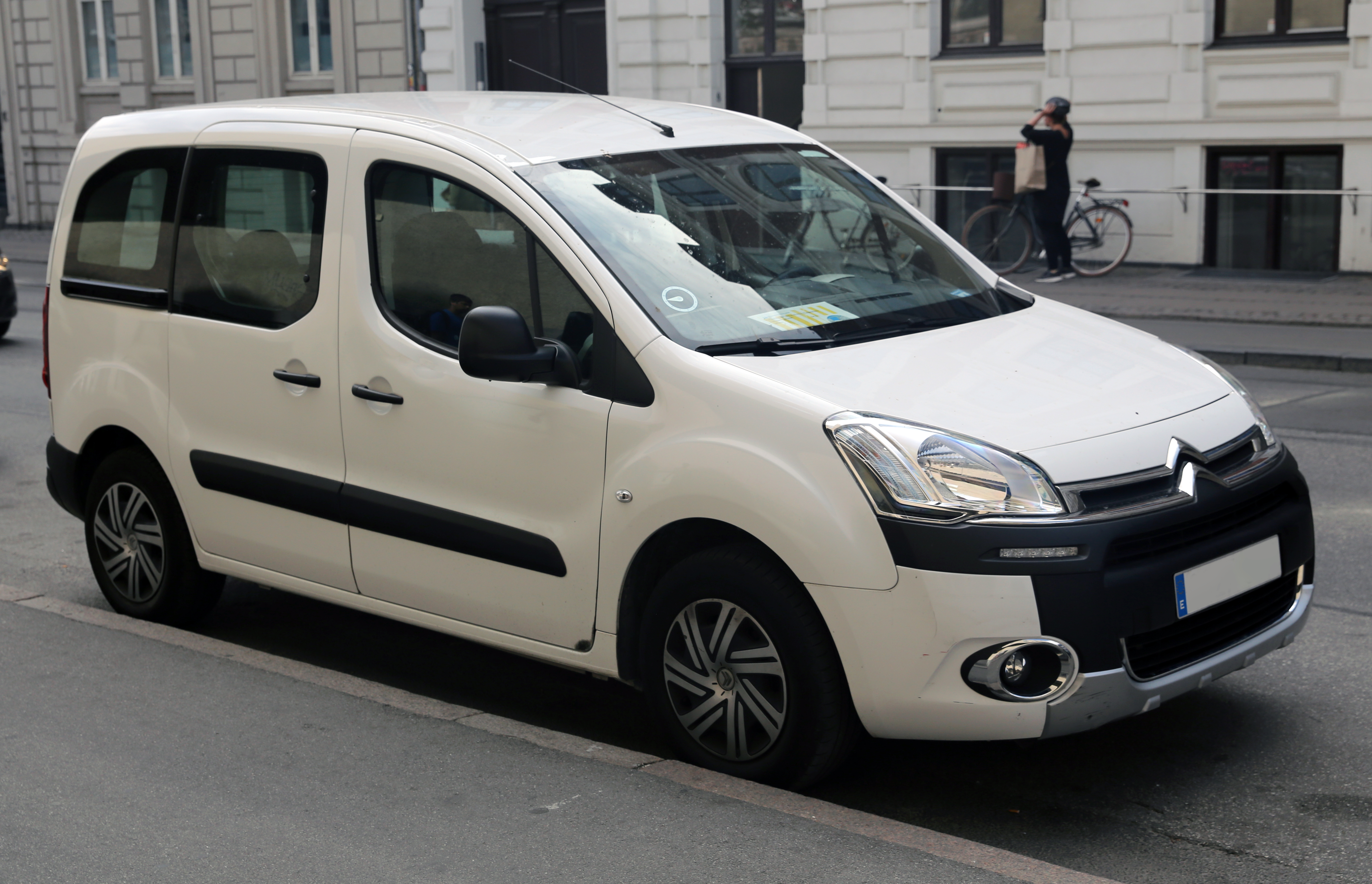 A 2015 Citroën Berlingo Multispace LIVE Edition BlueHDi 75, registered in Spain.